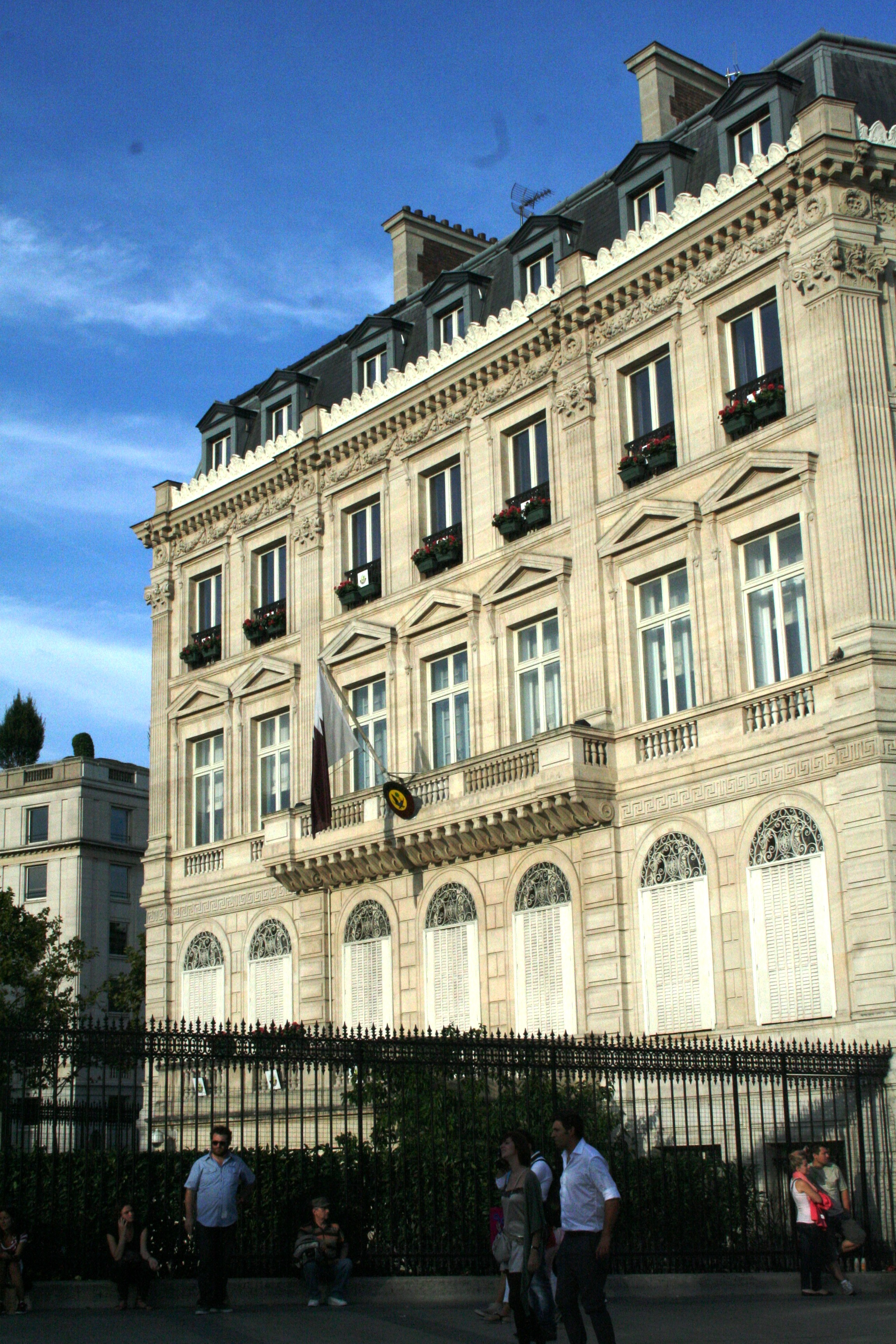 Qatari Embassy in Paris, France. Qatar is an Arab country in the Persian Gulf region.